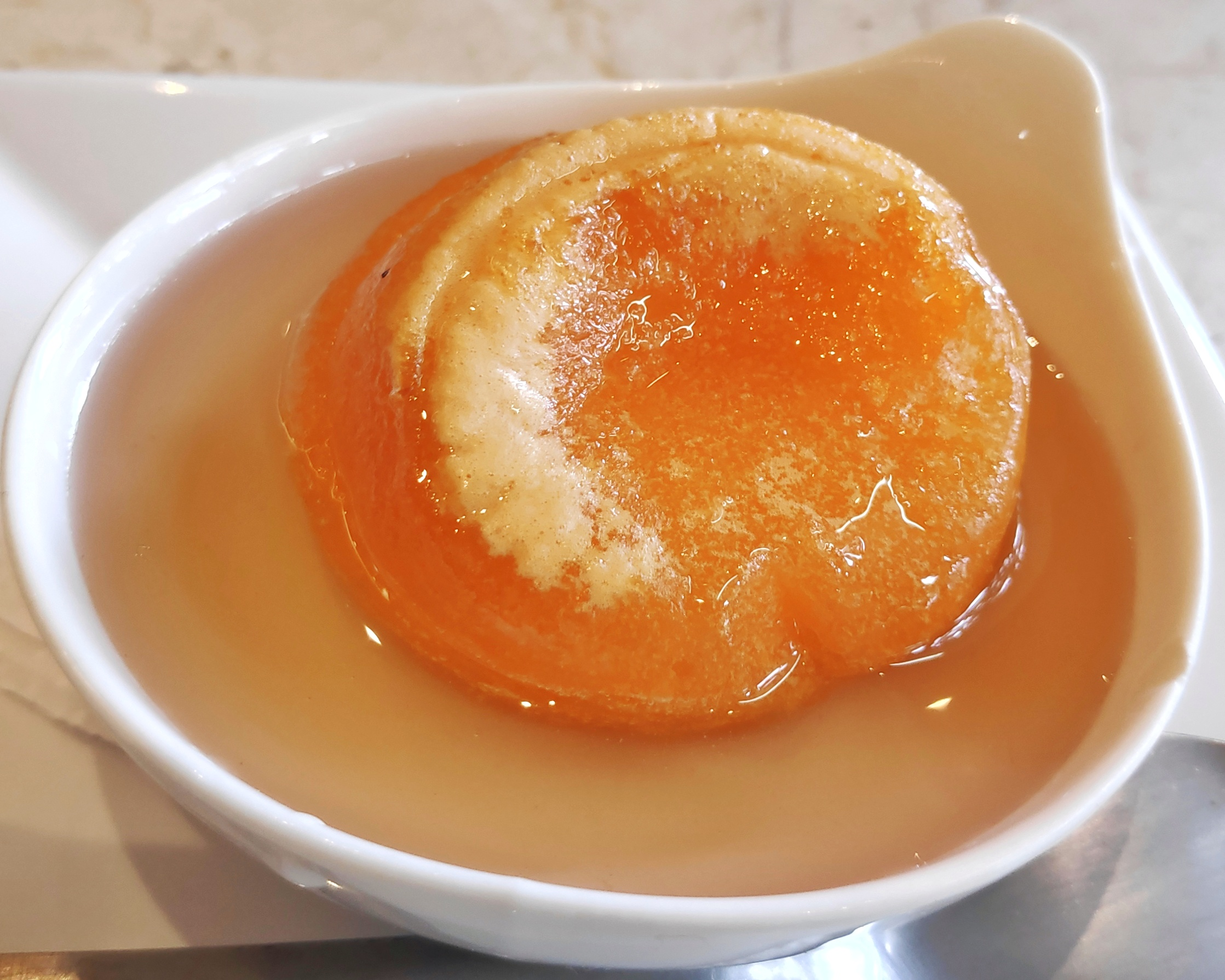 Papo de anjo (angel's double chin)